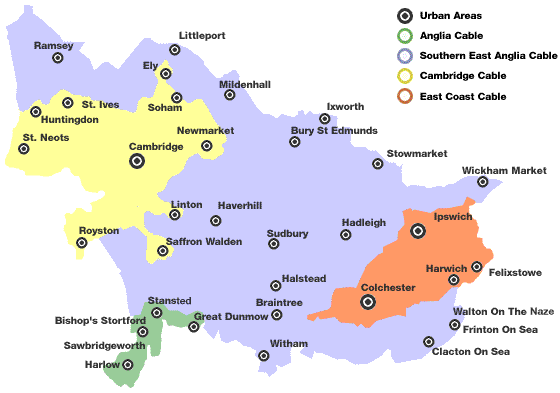 Source Converted to PNG format from publicly available GIF file (archived at Wayback Machine).